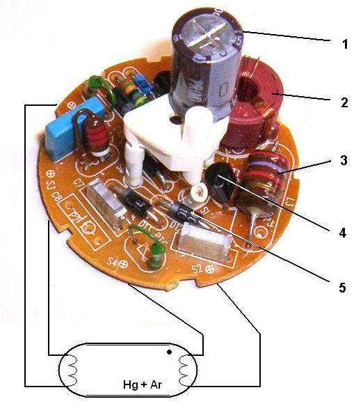 Electronic ballast for a 12 watt 230 volt compact fluorescent lamp Electrolytic filter capacitor Toroidal ferrite transformer Choke 1 of 2 switching transistors 1 of 4 bridge rectifier diodes